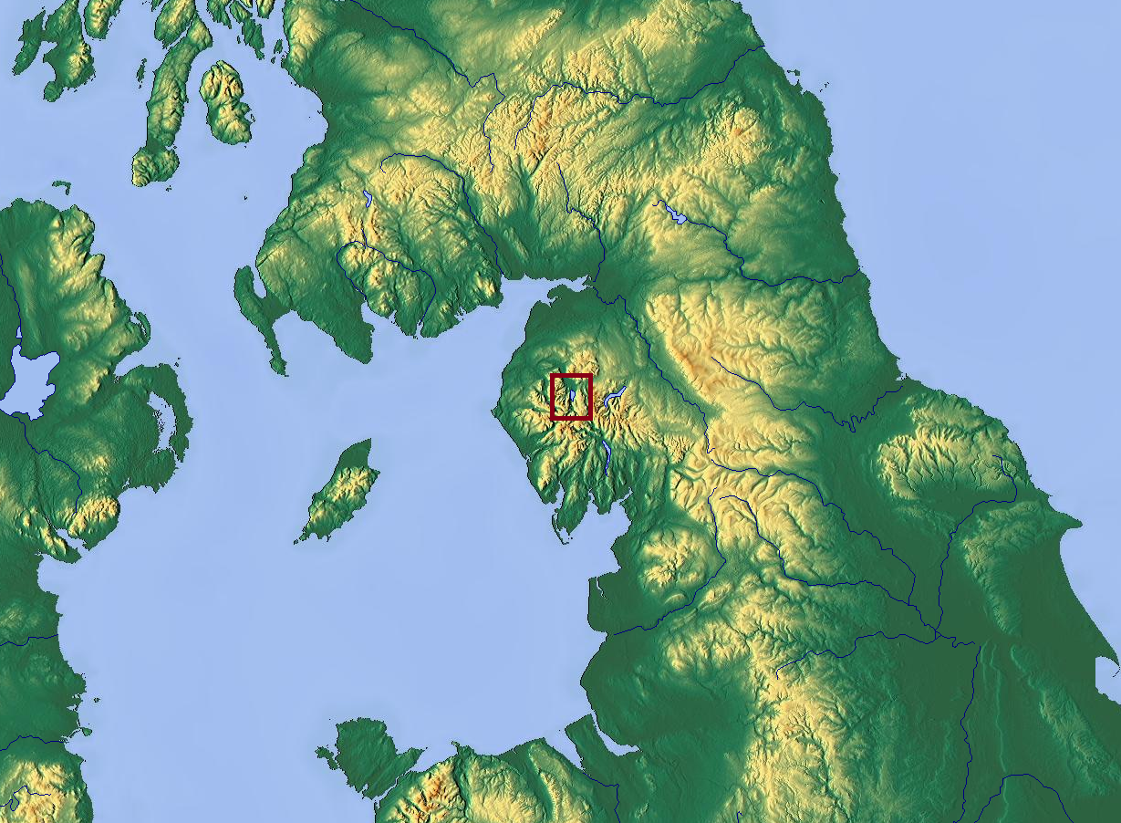 Relief map of the UK showing location of Derwent